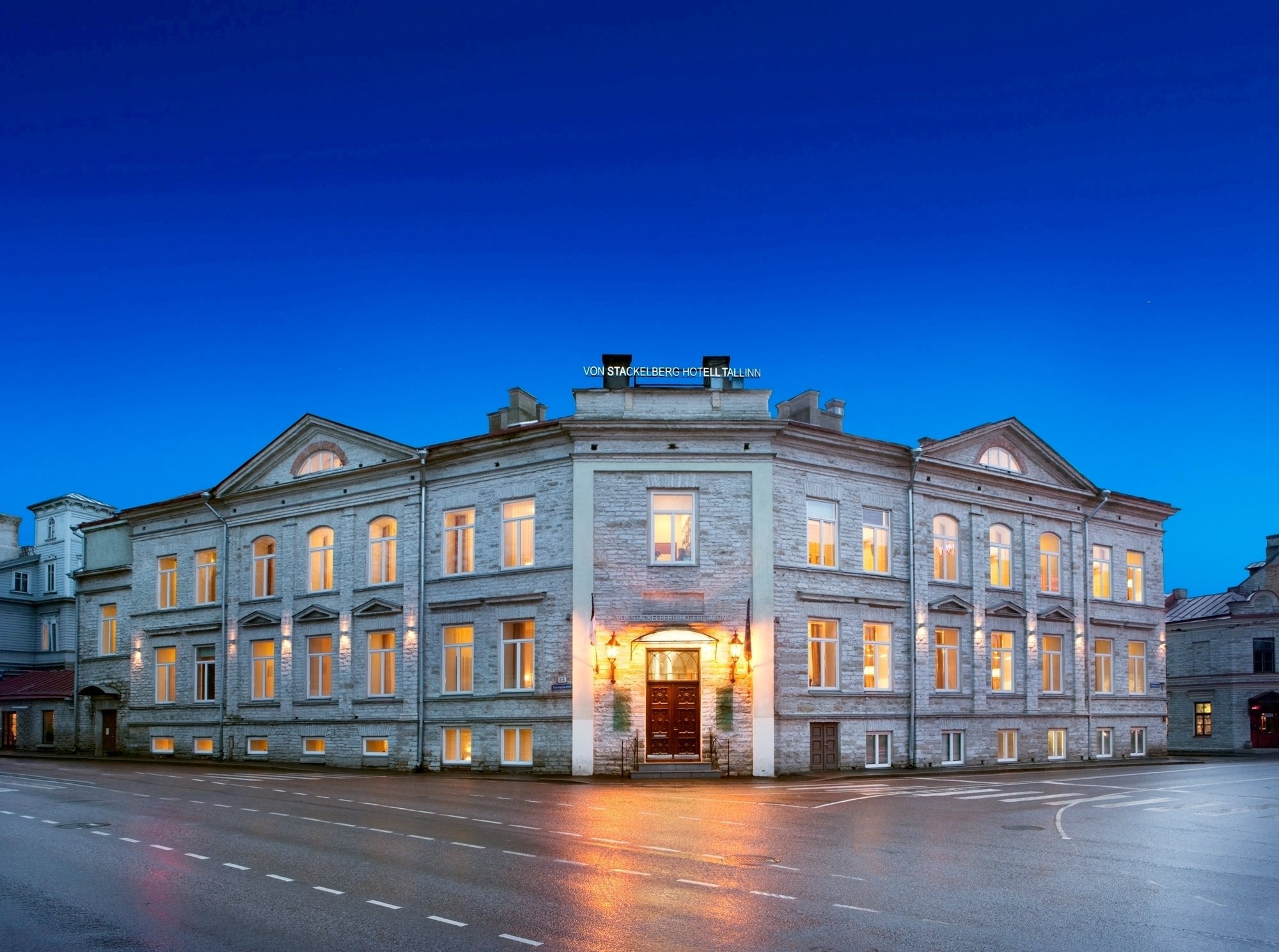 Originally built in 1874 as a private residence for a German nobleman, the von Stackelberg Hotel is located directly on the Old Town of Tallinn at the foot of Toompea Hill, only a few steps away from Toompea Castle and Nevsky Cathedral.